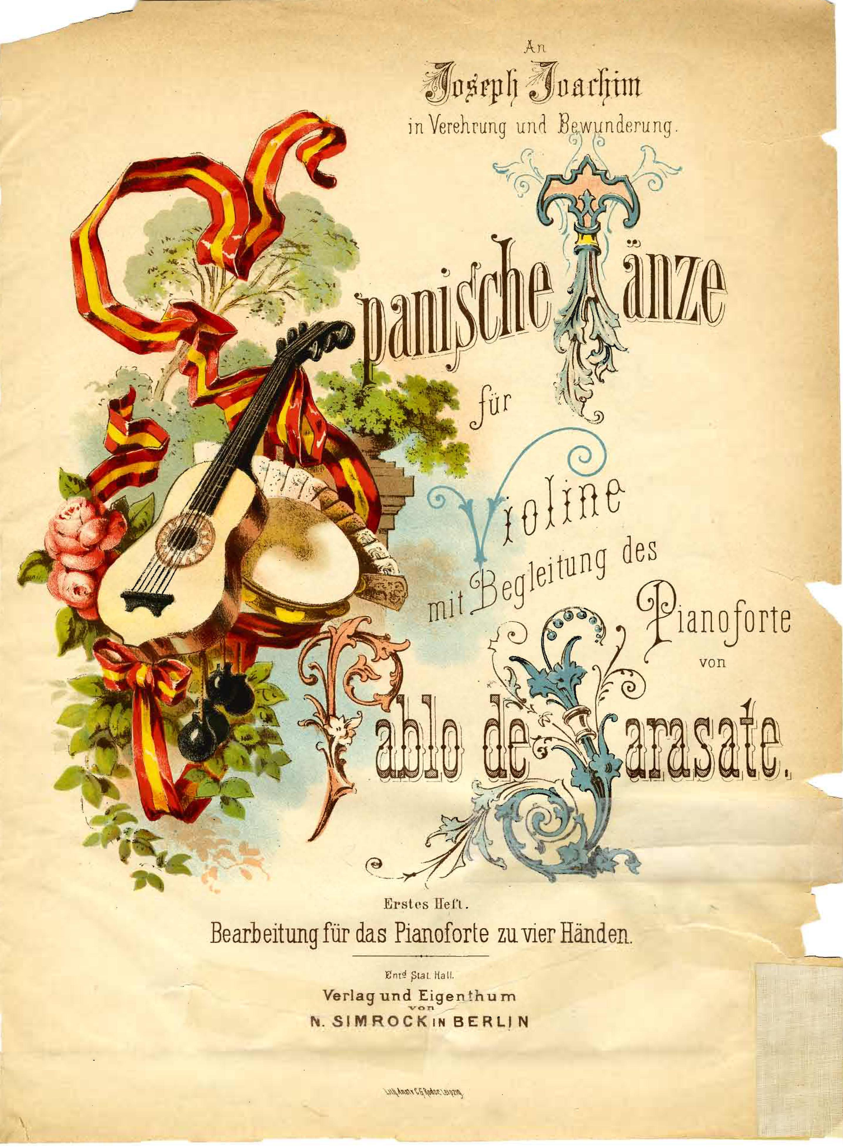 Front cover of Sarasate's «Spanische Tänze» arranged for piano 4 hands. Berlin: N. Simrock, n.d. (ca.1878).